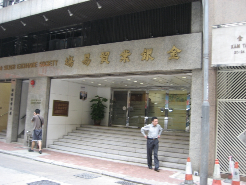 The Chinese Gold and Silver Exchange Society